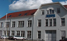 Headquarter